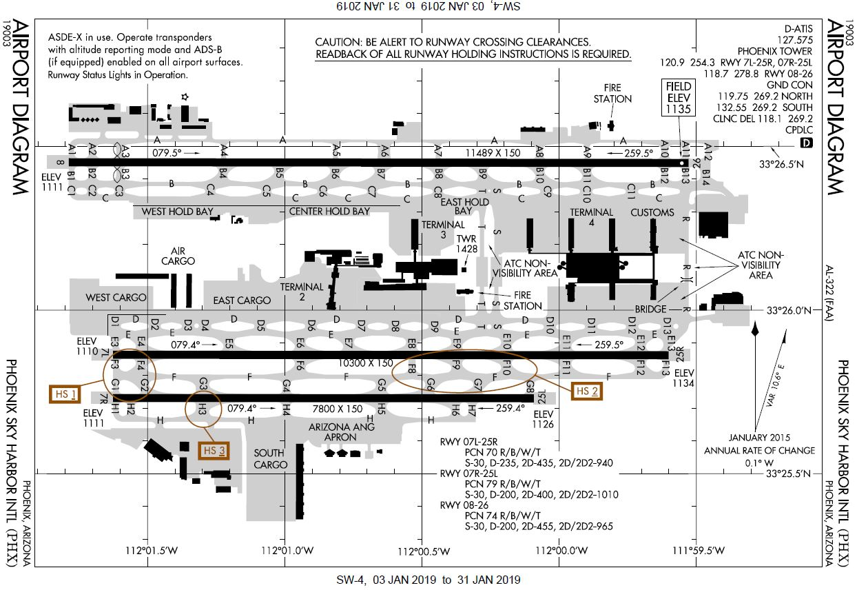 Taken from Category:Images of Phoenix, Arizona